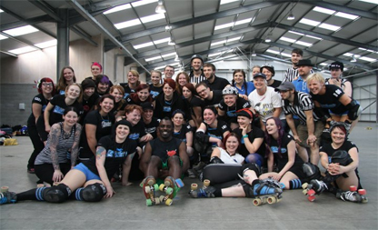 picture of the Lincolnshire Bombers at there Boot Camp with Quadzilla from Rat City Roller Girls, August 2010